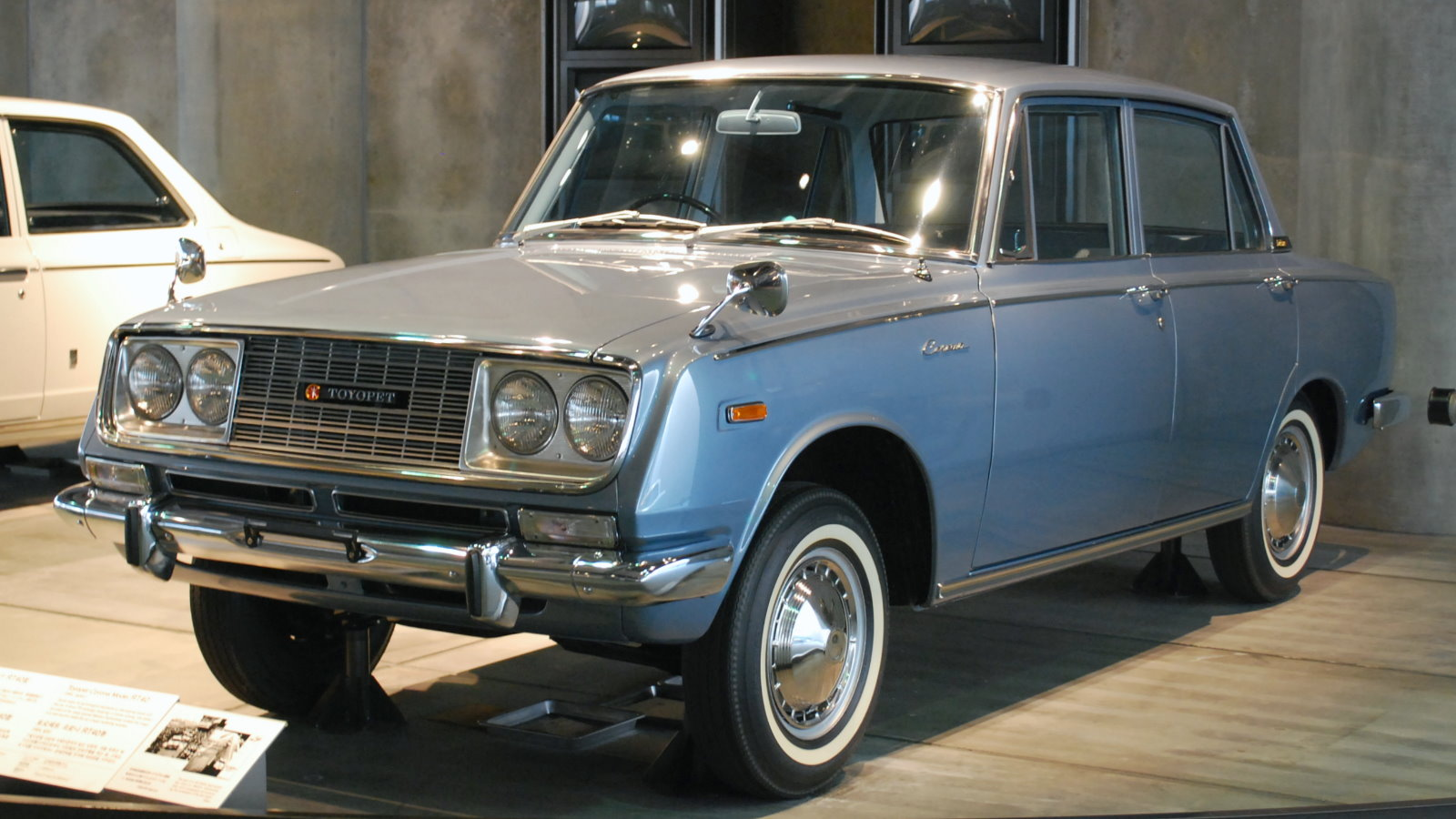 3rd generation Toyopet_Corona Model RT40